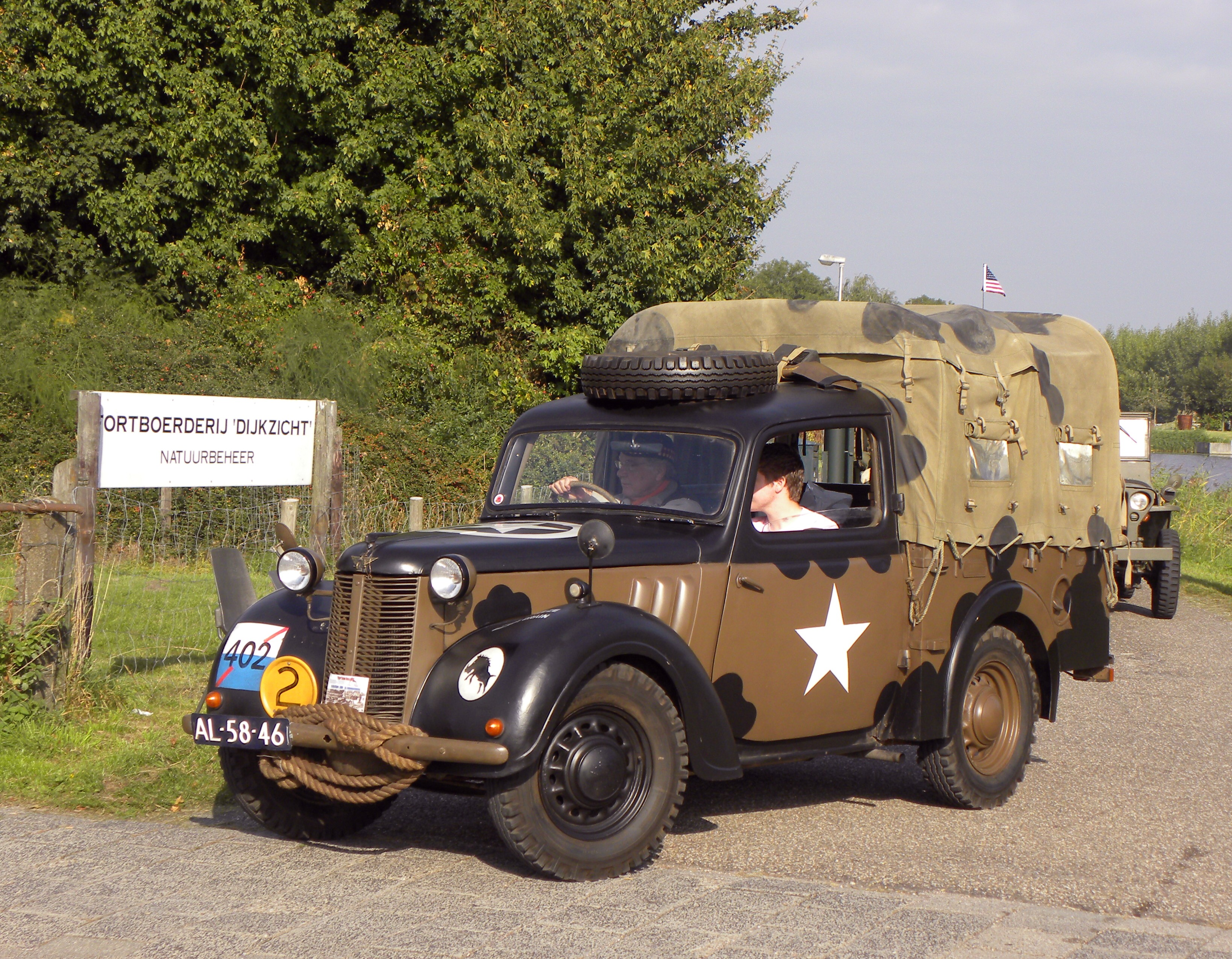 seen at crash 40-45 museum, red ball express event